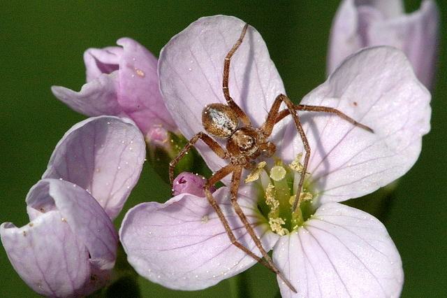 probably a female (not male as in title) Philodromus aureolus from Commanster, Belgian High Ardennes .